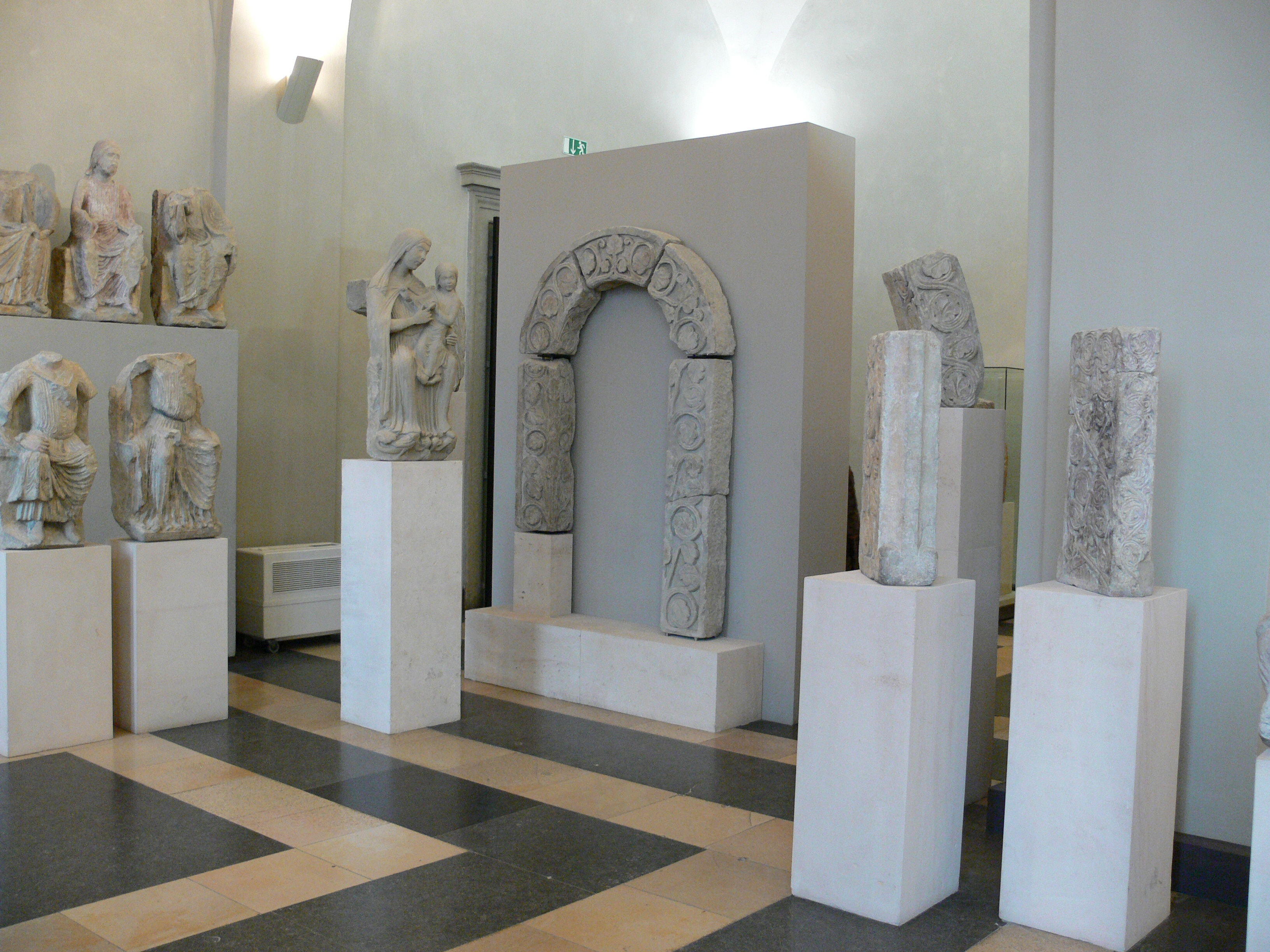 Sculptures and architectural fragments from Wessobrunn Abbey Bayerisches Nationalmuseum München